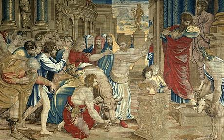 Death of Lystras